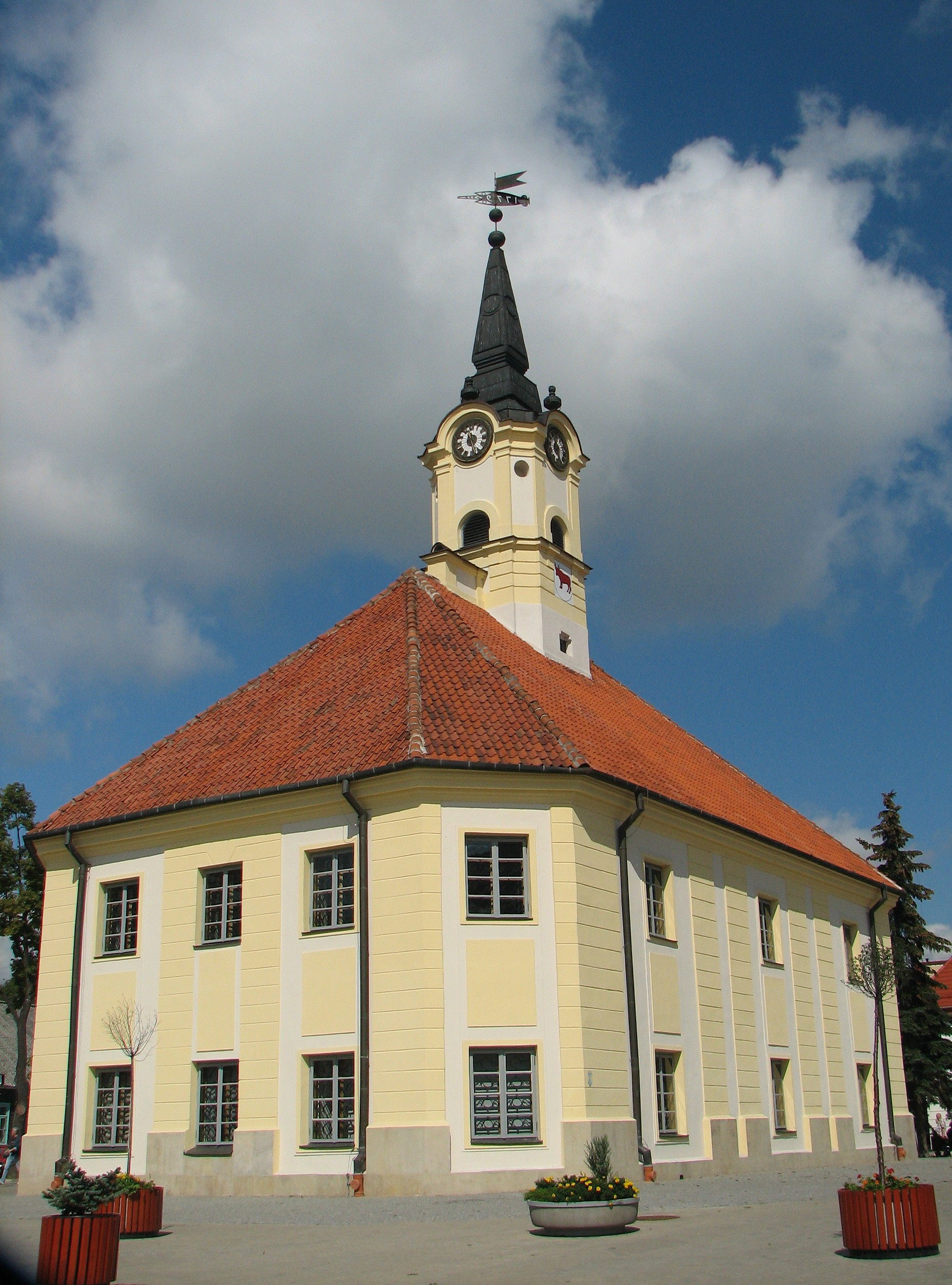 The Hall. Presently, museum in Bielsk Podlaski, Poland